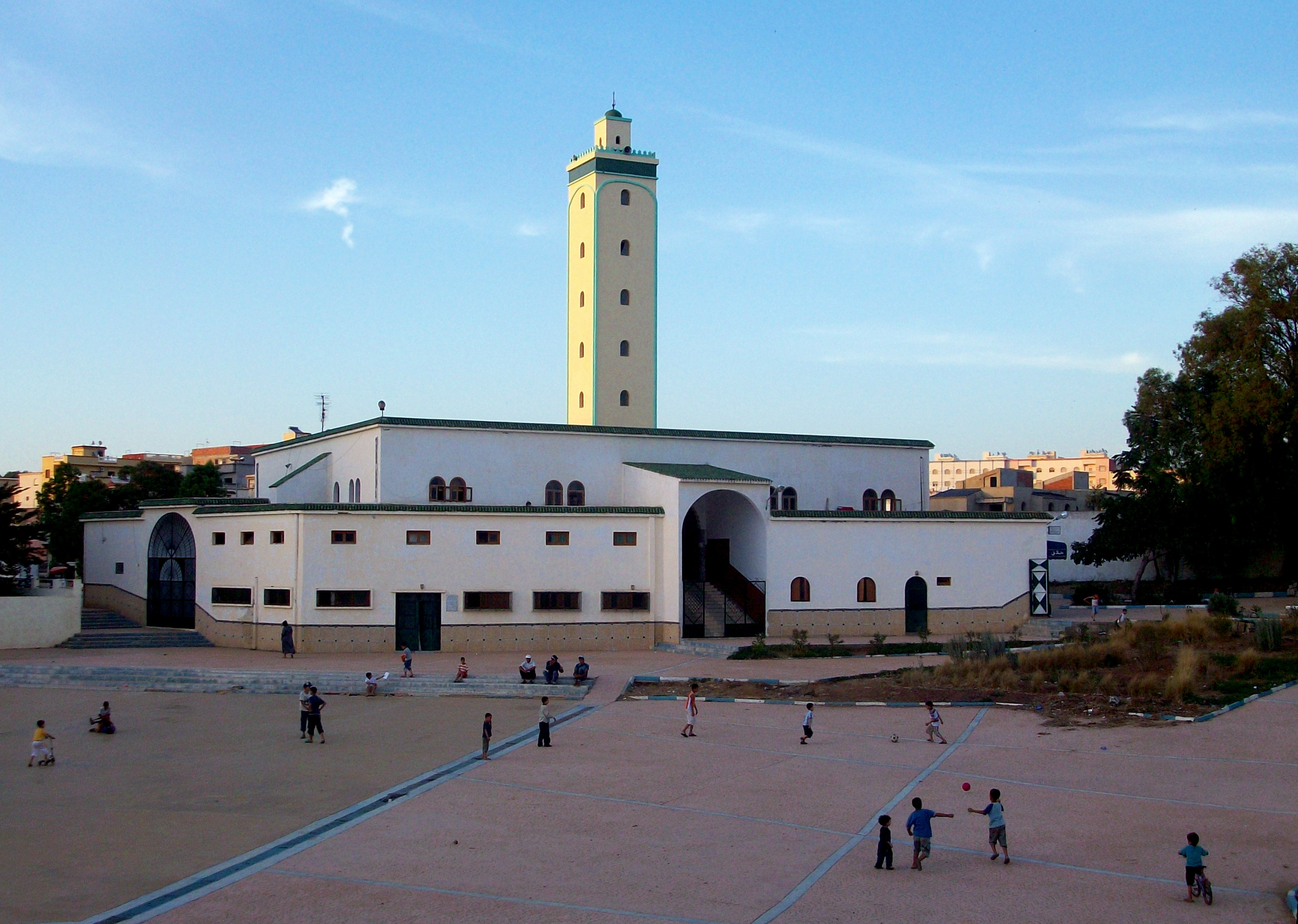 Wafa Mosque, Larache, Morocco